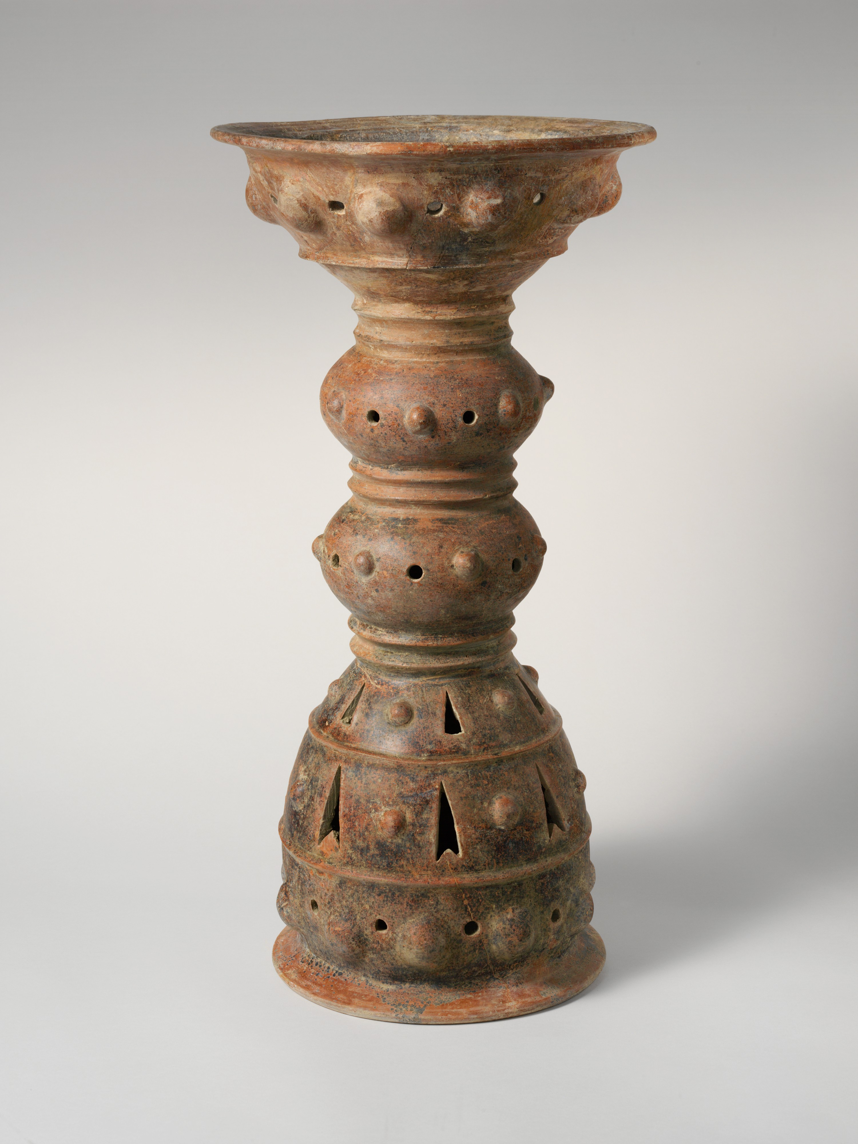 Etruscan; Stand; Vases